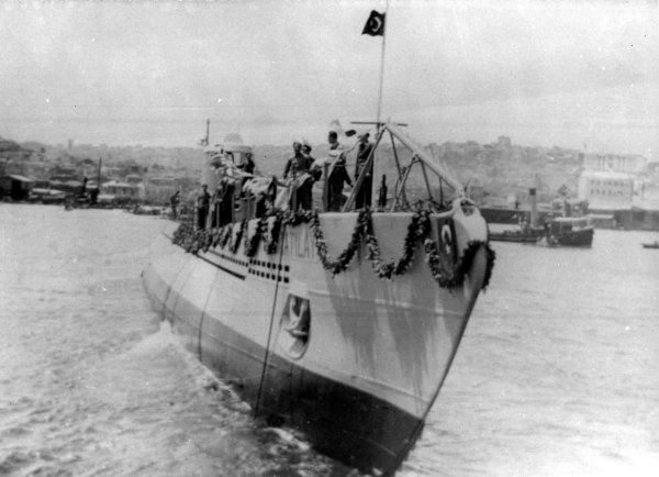 Turkish submarine Atılay, circa. 1939.